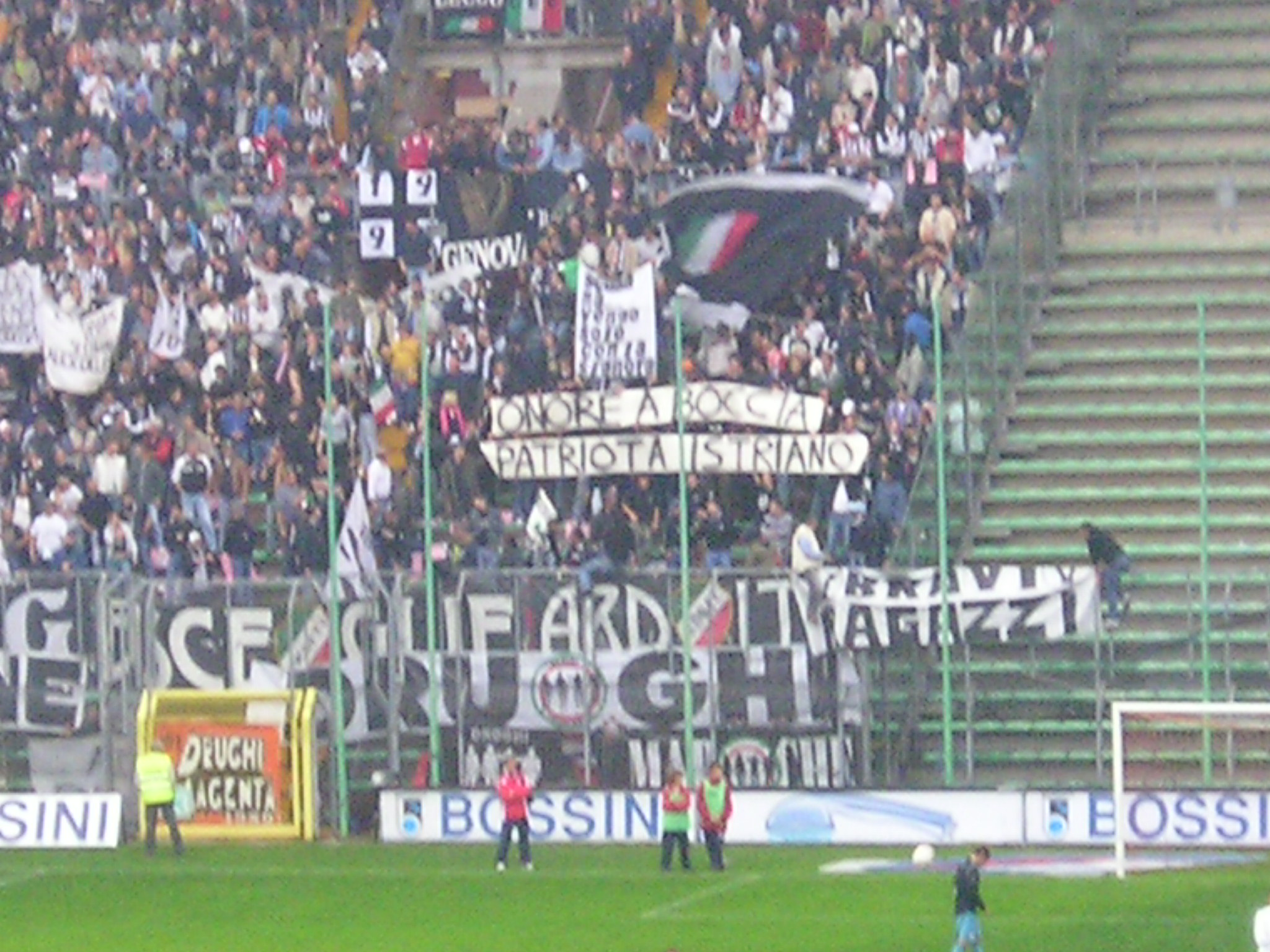 Triestina, Italy - some Juventus fans in 2006 during a game against Triestina.